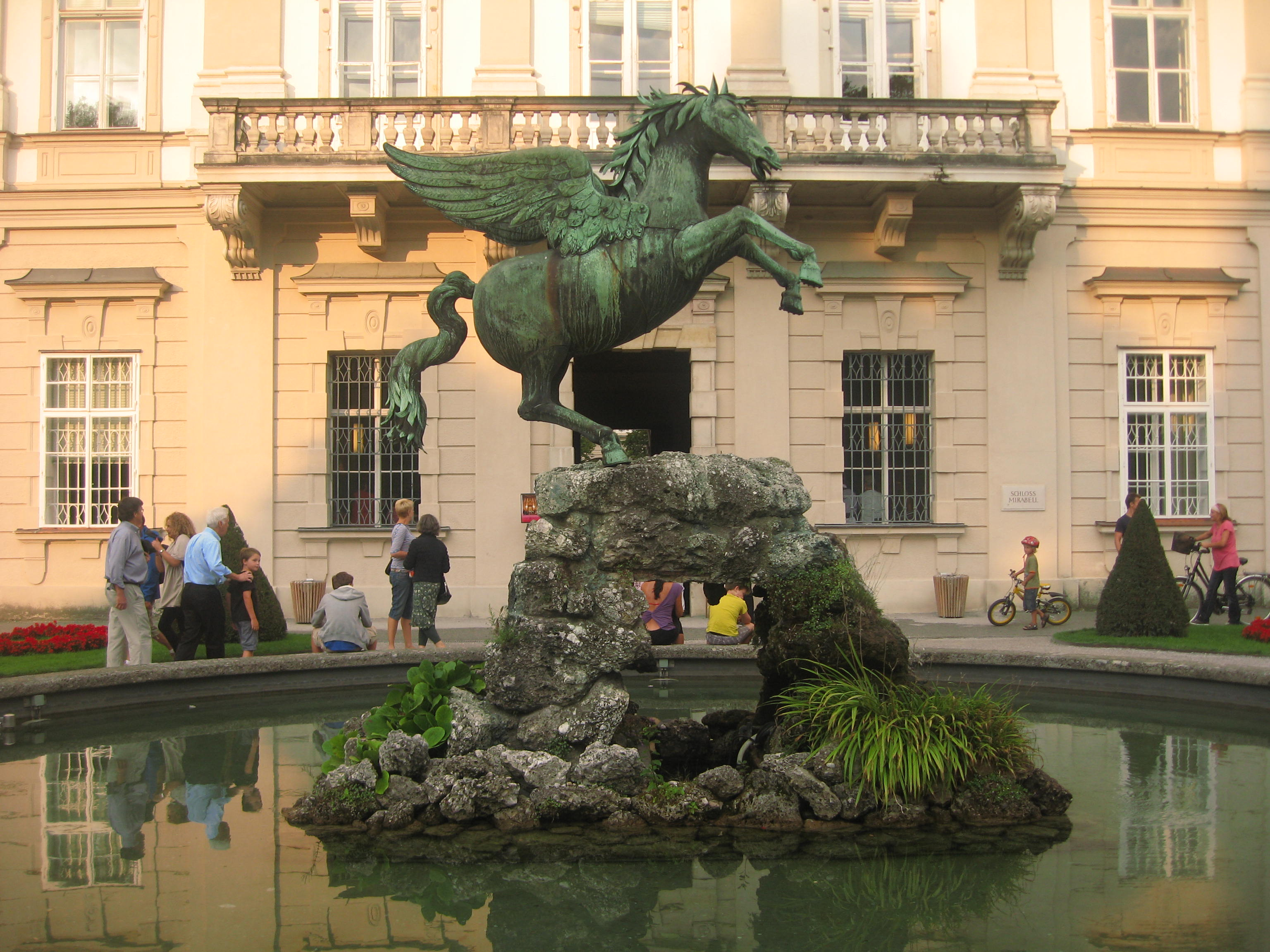 Mirabell Garten Salzburg Austria